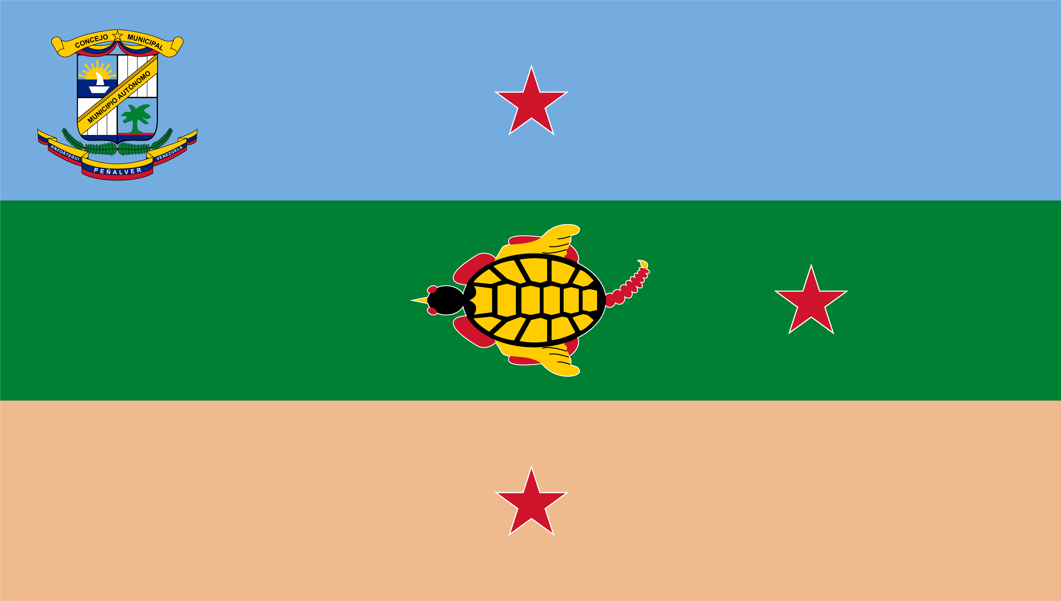 Flag of the Fernando de Peñalver Municipality, Anzoátegui State, Venezuela